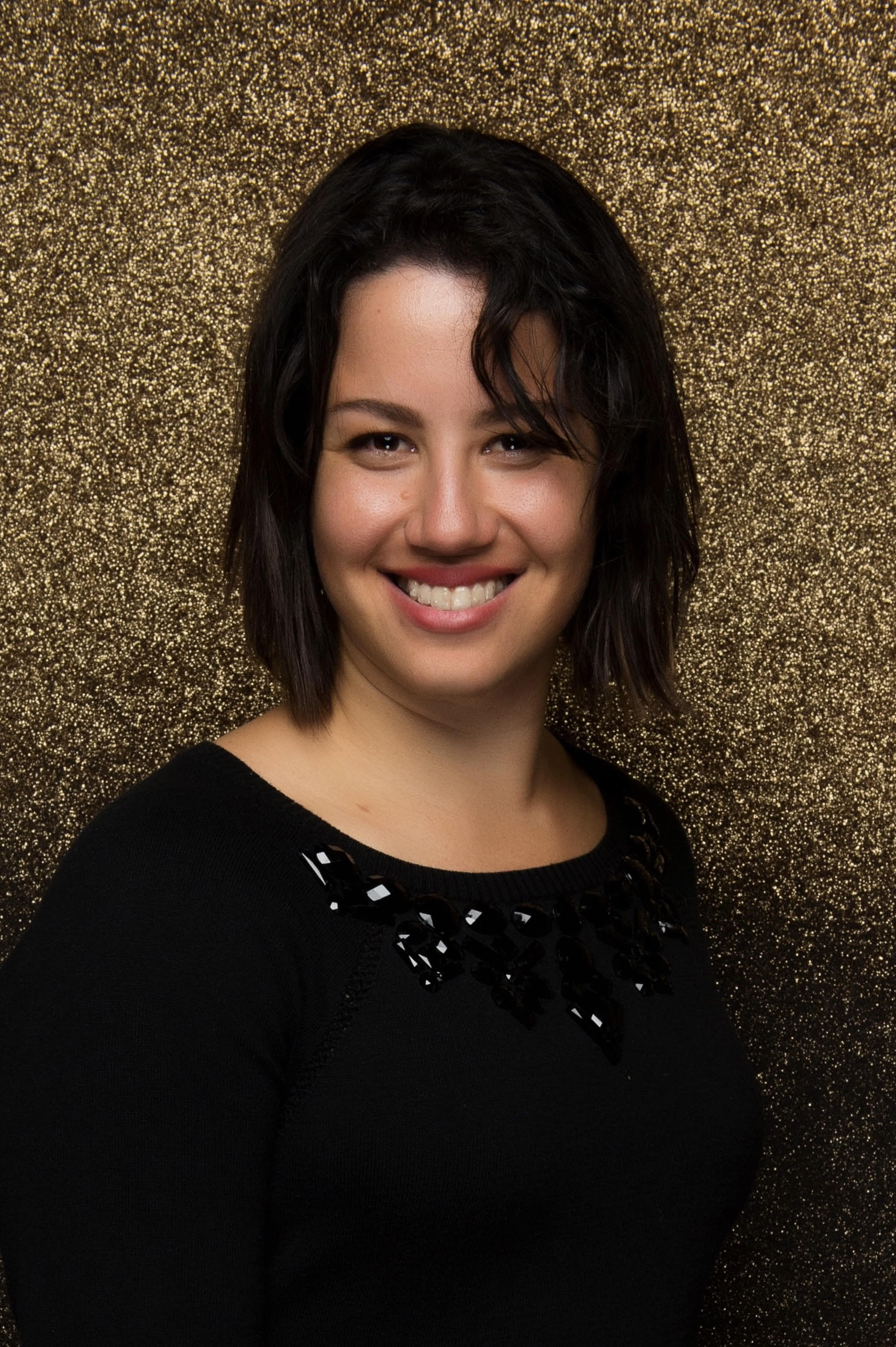 Depicted person: Star Simpson – American software developer